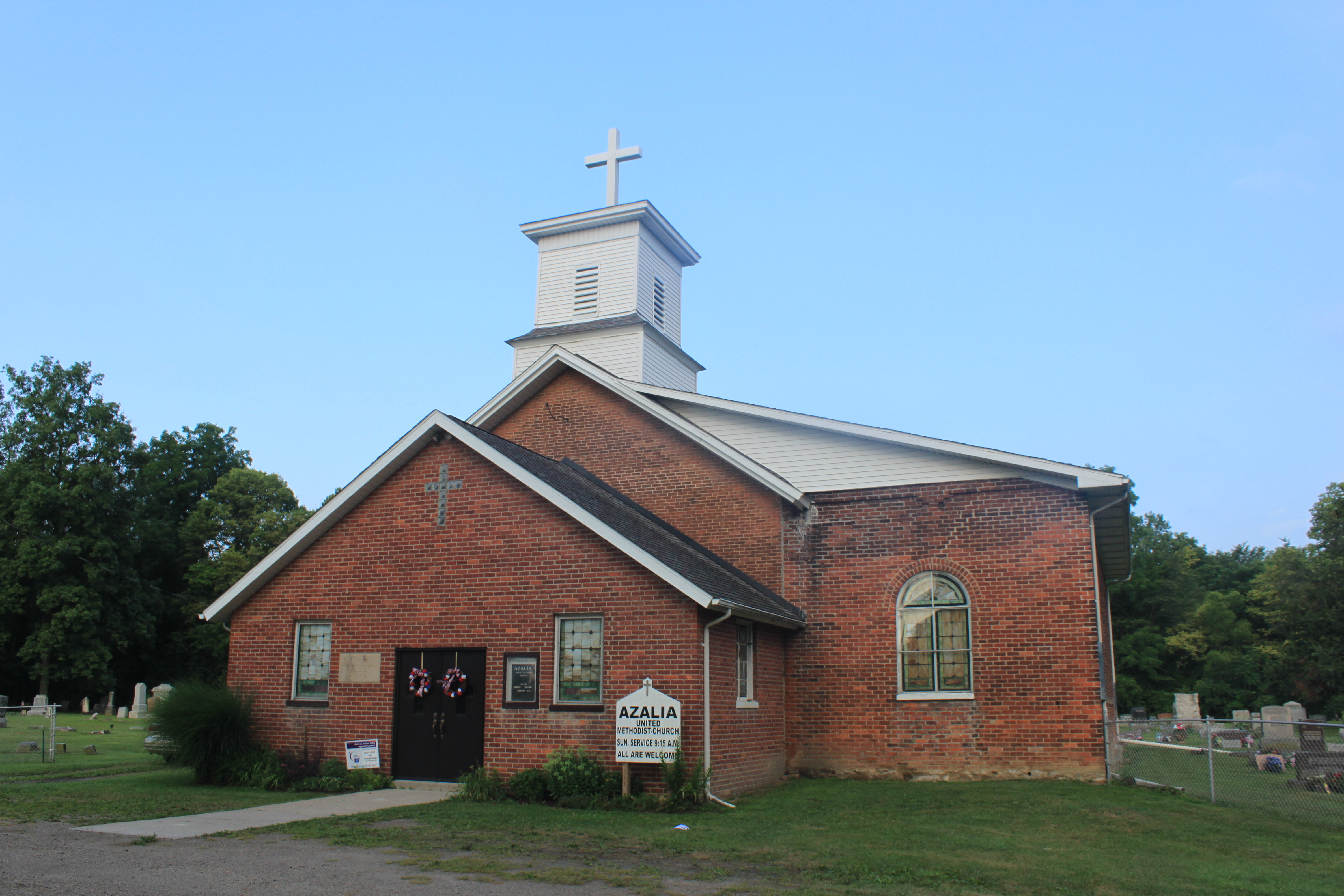 Azalia Michigan, Azalia United Methodist Church, 9855 Dundee Azalia Rd.